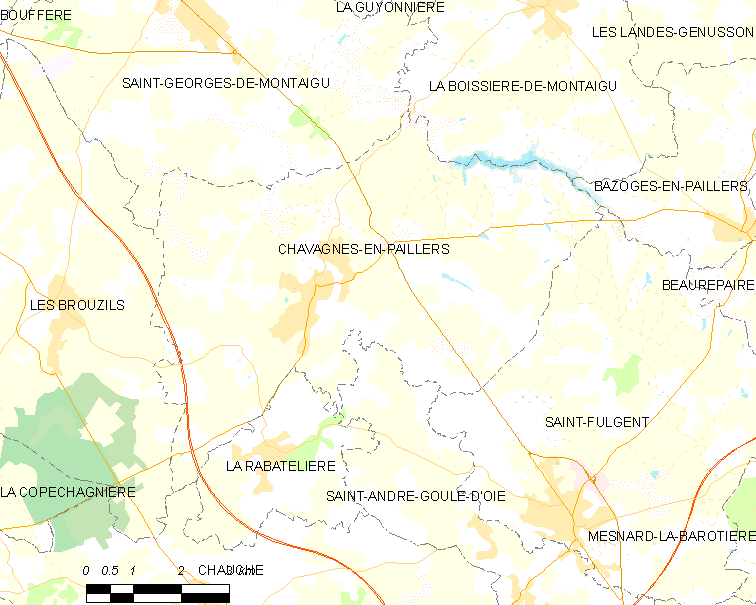 Map of French municipality Chavagnes-en-Paillers